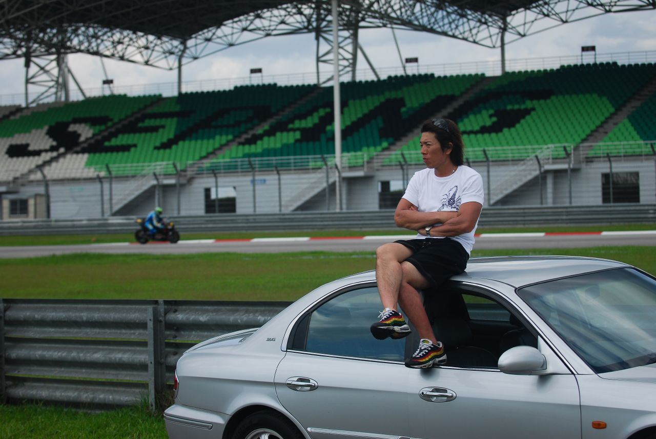 Japanese SuperBike rider Yukio Kagayama sit on the car during MotoGP pre-season test session at Sepang International Circuit outside Kuala Lumpur January 22, 2007. Rashidi Saleh@jaggat (MALAYSIA)